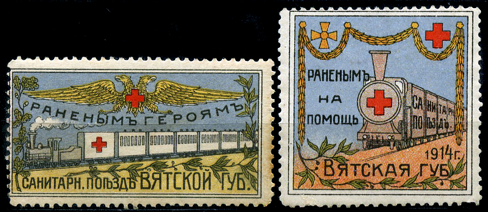 Revenue stamps of voluntary gathering to the aid of wounded men, Vjatsky province, 1914